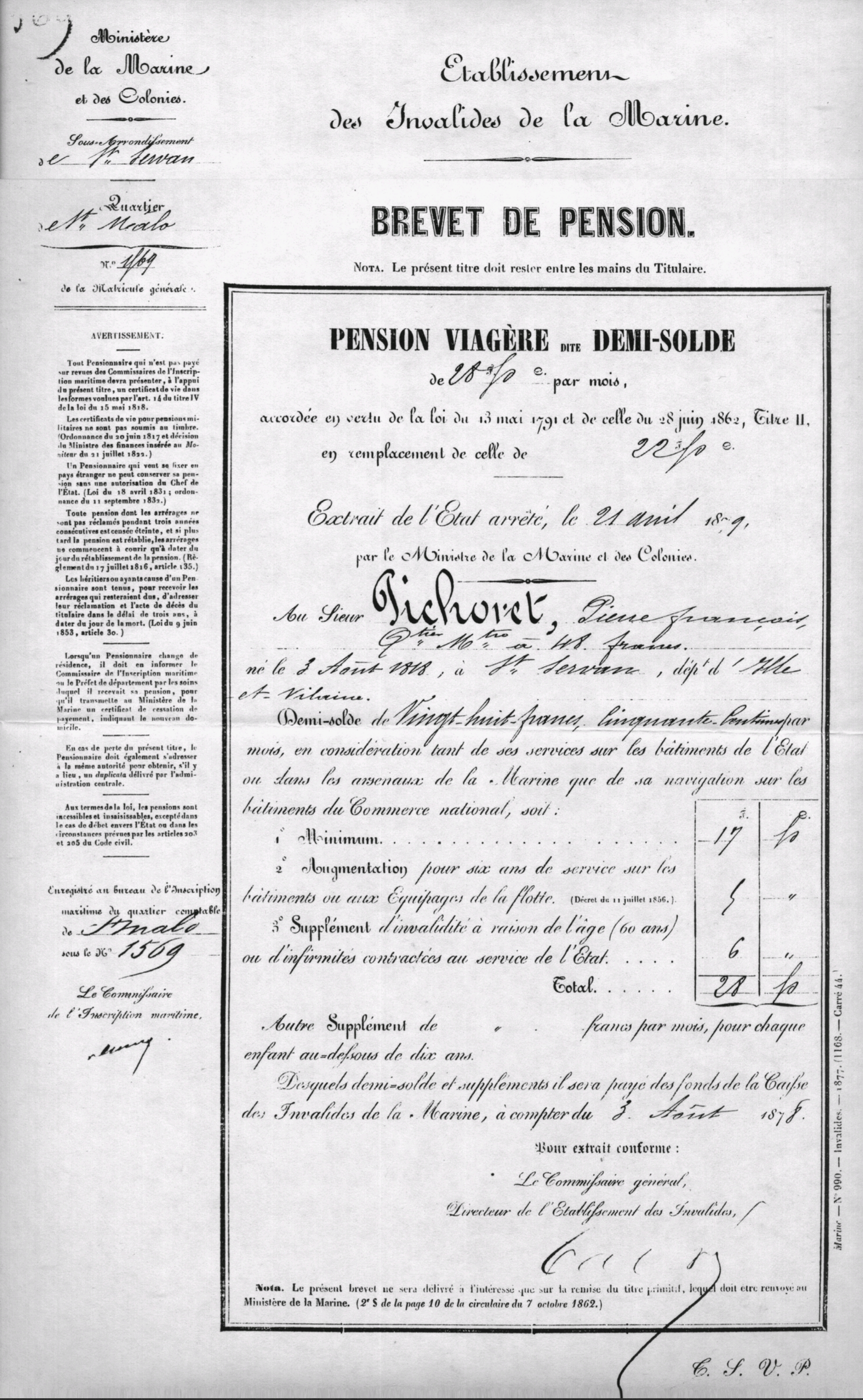 Pension retirement